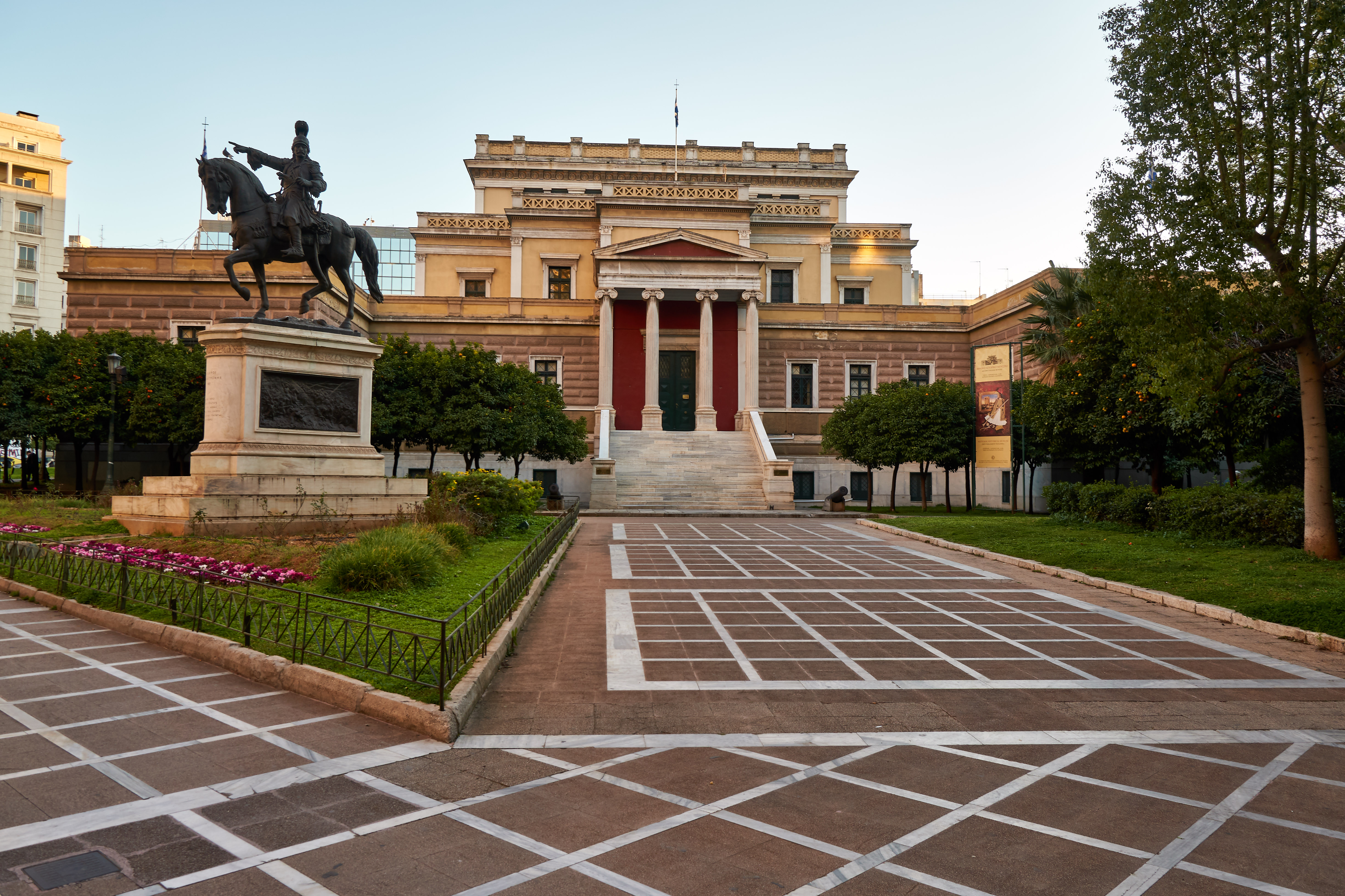 The Old Parliament House in Athens now hosting the National Historical Museum. View from Stadiou Street.